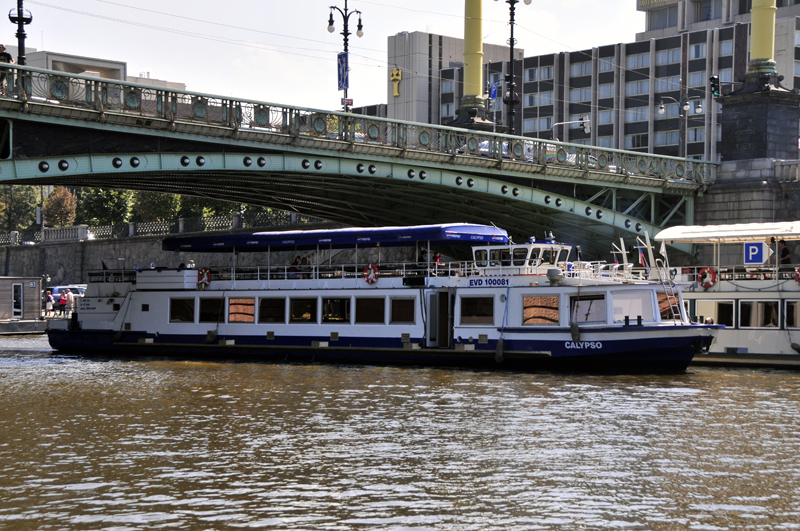 Boat Calypso